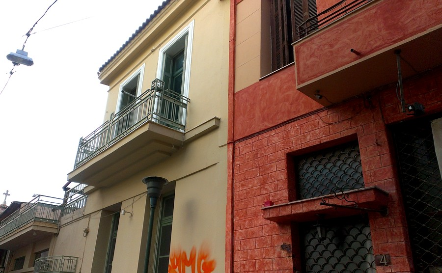 spitia